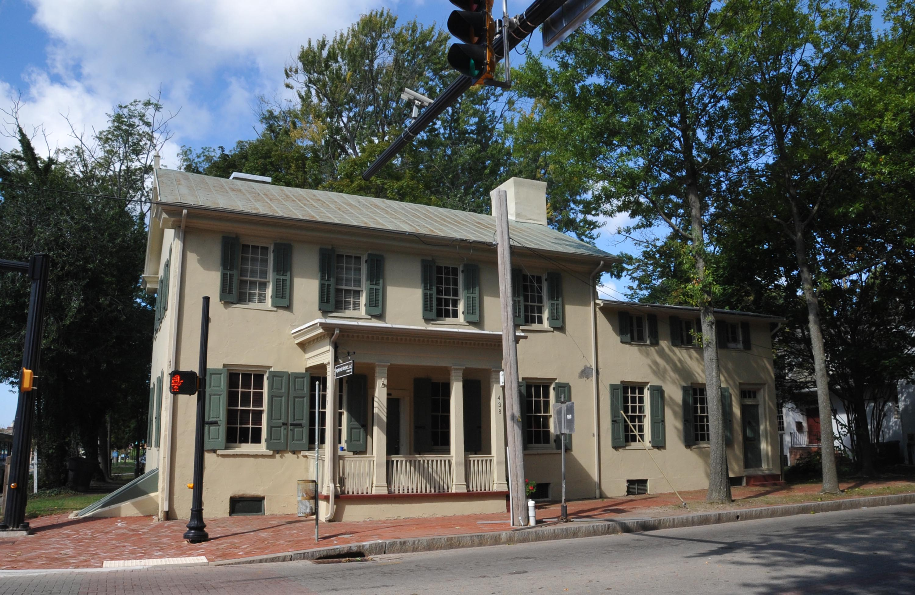 HE WAS A VETERAN OF THE AMERICAN REVOLUTION, A DELEGATE TO THE CONSTITUTIONAL CONVENTION OF 1787, AND A MEMBER OF THE FEDERALIST PARTY, WHO SERVED IN THE DELAWARE GENERAL ASSEMBLY, AS GOVERNOR OF DELAWARE, AND AS U.S. SENATOR FROM DELAWARE. HE HOLDS THE SENATE RANK OF 1, AS THE MOST SENIOR UNITED STATES SENATOR DURING THE FIRST CONGRESS OF THE UNITED STATES